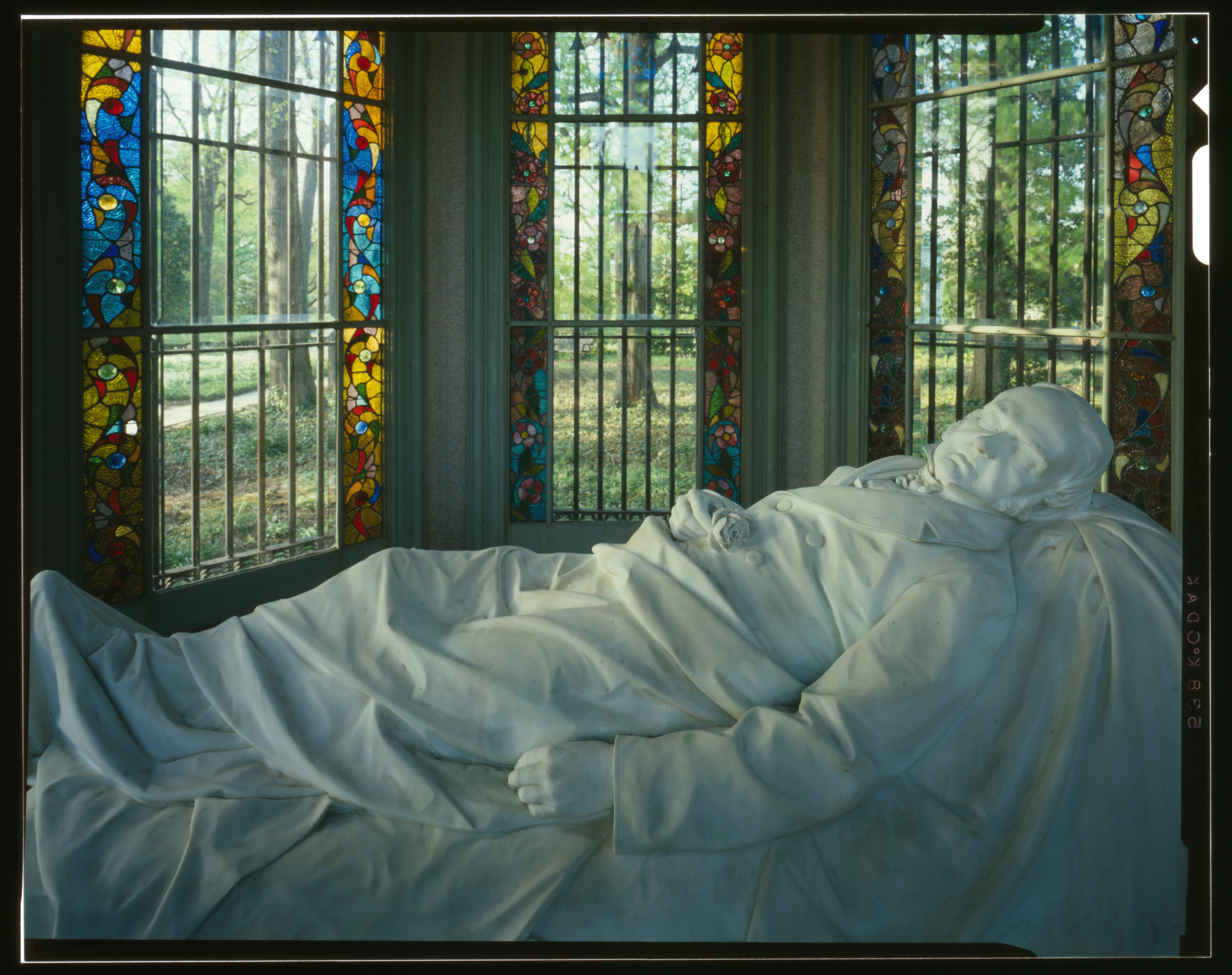 Henry Shaw, botanist and founder of the Missouri Botanical Garden, Saint Louis, Missouri. This is his memorial sculpture in the Henry Shaw Mausoleum, Missouri Botanical Garden. Image courtesy of Historic American Buildings Survey—HABS — Photograph taken April 1983. This image (photo #11) is from the Library of Congress online collection; see catalog information below. It is in the public domain because it was produced by the United States Government. TITLE: Missouri Botanical Garden, Henry Shaw Mausoleum, 2345 Tower Grove Avenue, Saint Louis, St. Louis City County, MO CALL NUMBER: HABS MO,96-SALU,105E- REPRODUCTION NUMBER: [See Call Number] MEDIUM: Measured Drawing(s): 3 (24 x 36) Photo(s): 11 (4 x 5 in.) Data Page(s): 7 plus cover page Color Transparencies: 1 DATE: Documentation compiled after 1933. CREATOR: Historic American Buildings Survey, creator NOTE: Survey number HABS MO-1135-E COLLECTION: Historic American Buildings Survey (Library of Congress) REPOSITORY: Library of Congress, Prints and Photograph Division, Washington, D.C. 20540 USA DIGID: CONTENTS: Photograph caption(s): 1. VIEW LOOKING NORTH FROM THE PORCH OF TOWER GROVE 2. VIEW LOOKING SOUTHEAST 3. VIEW LOOKING NORTHEAST 4. VIEW LOOKING NORTHWEST 5. WEST FACE OF MAUSOLEUM 6. INTERIOR, SHOWING EFFIGY ON SARCOPHAGUS 7. DETAIL OF EFFIGY 8. GATEWAY WITH MAUSOLEUM IN BACKGROUND 9. ONE GATE POST AND SWEEP OF FENCE 10. EXTERIOR OF BUILDING 11. DETAIL OF STATUE IN BUILDING CARD #: MO0379